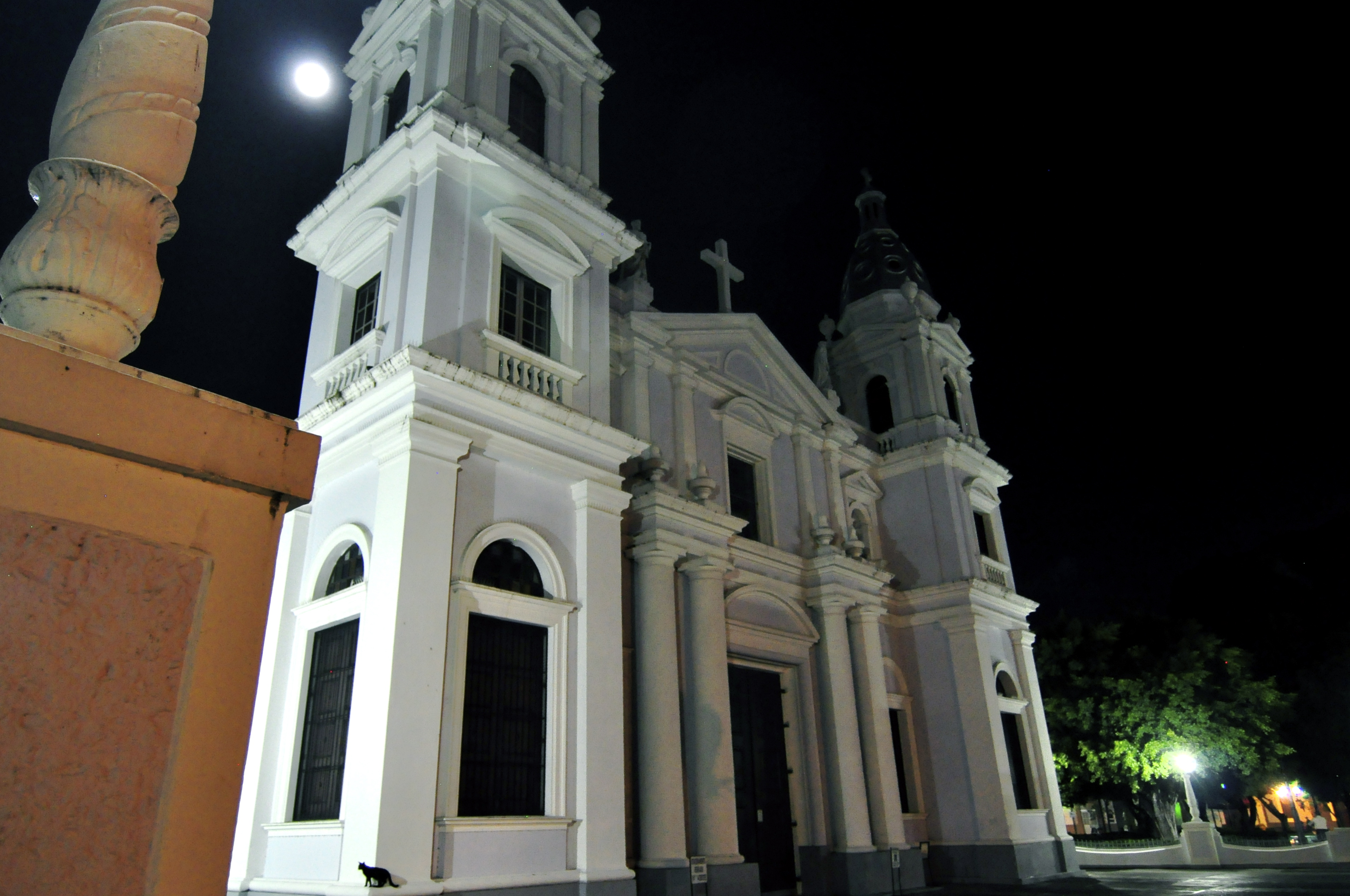 Cathedral of Our Lady of Guadalupe in Ponce, Puerto Rico